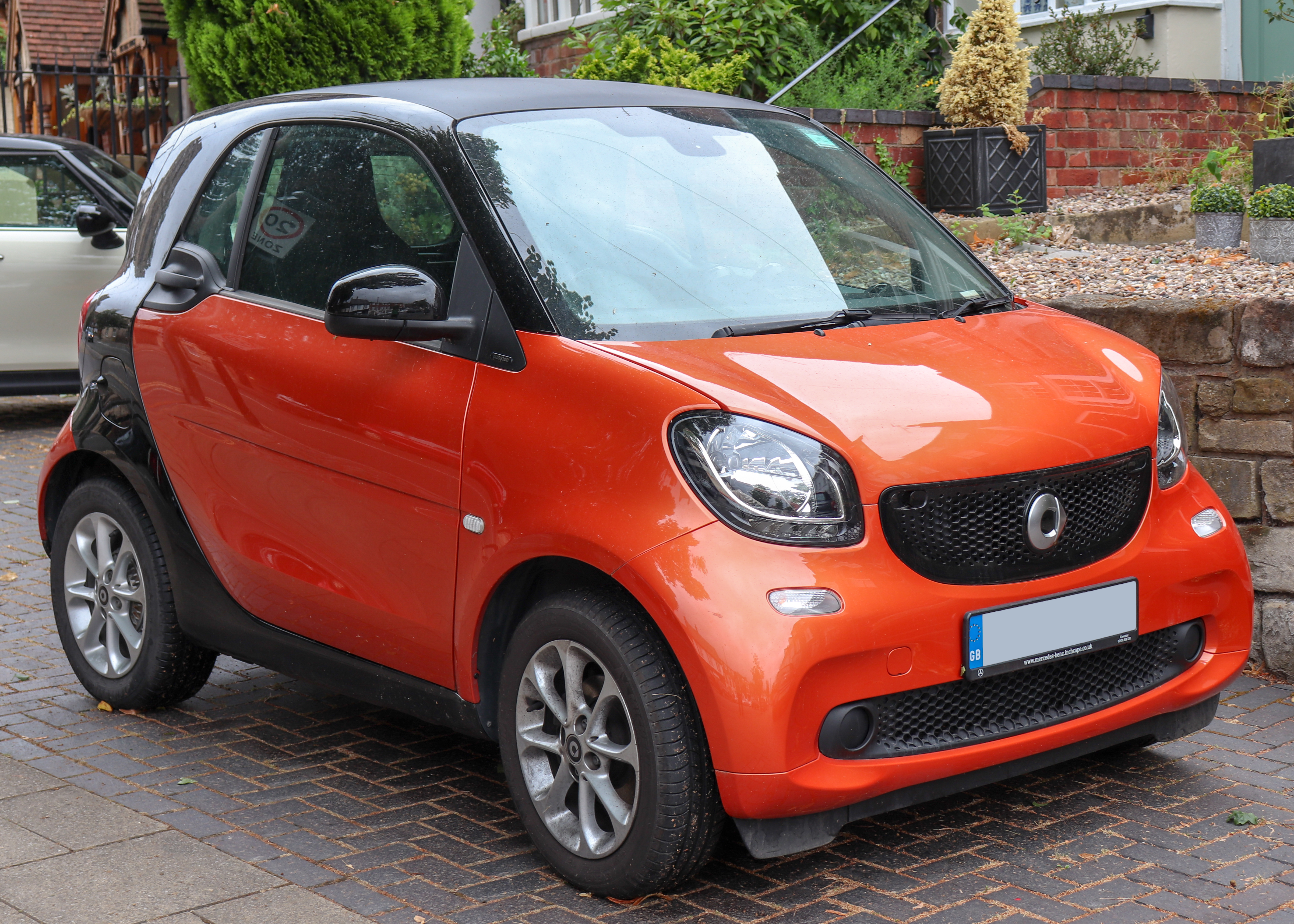 2016 Smart Fortwo Passion Automatic 1.0 Front Taken in Warwick